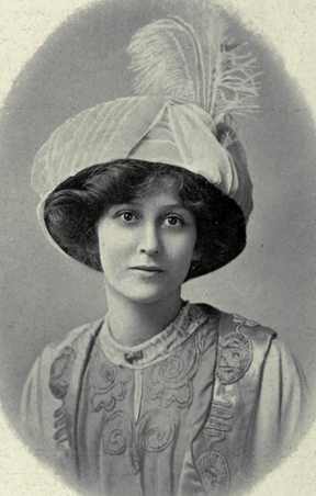 A young white woman wearing a large plumed hat, wearing an embroidered bodice.